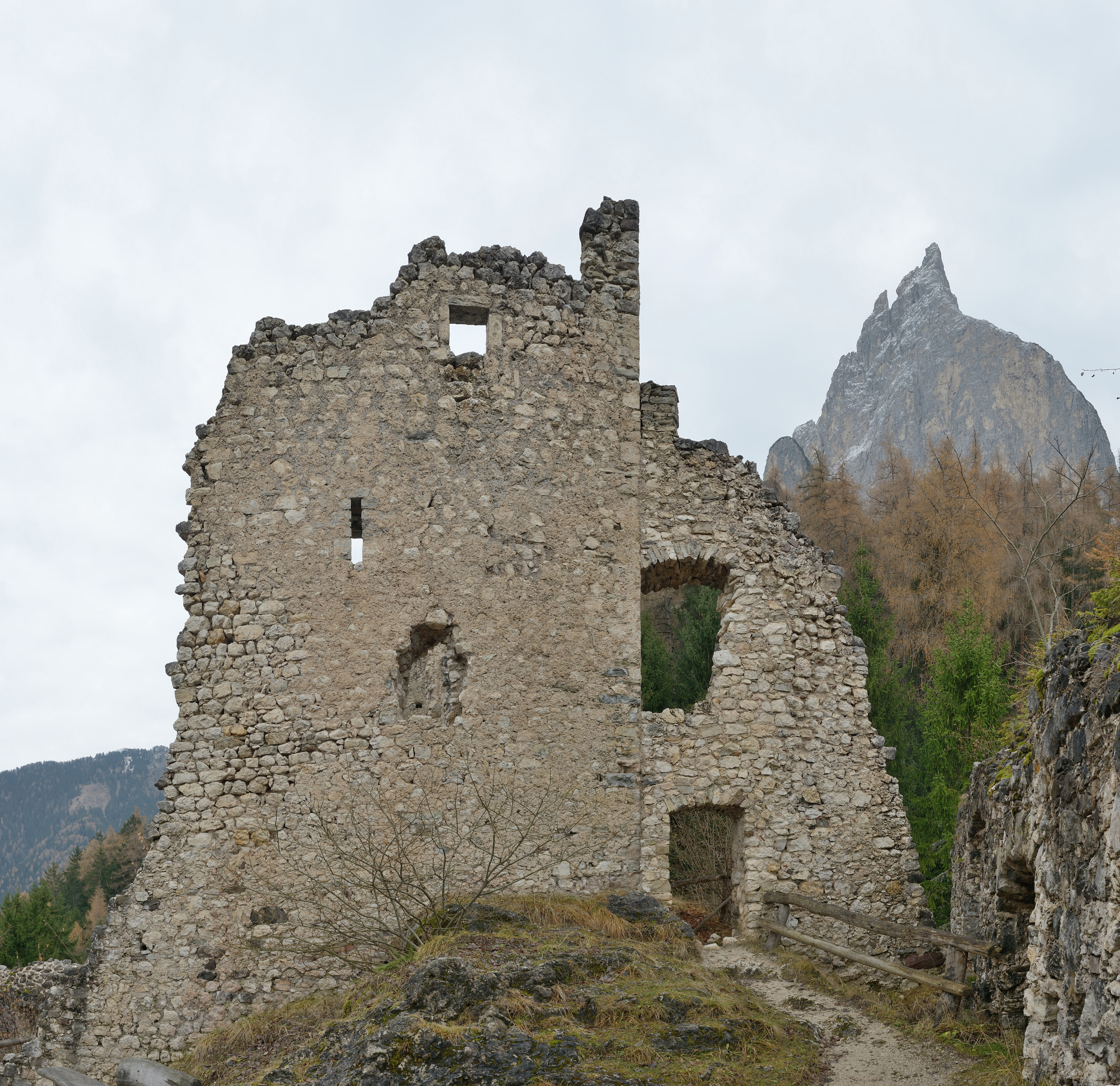 Castel ruin Hauenstein in Seis Kastelruth